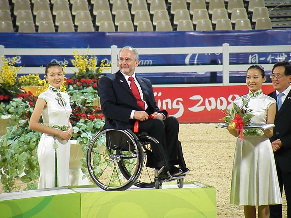 Philip Craven, president of the International Paralympic Committee participated in the medal presentation ceremony of the equestrian events at the Beijing 2008 Paralympic Games.